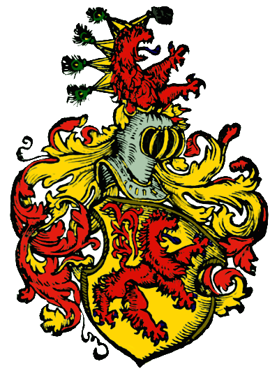 The heraldic achievement of the House of Habsburg. For an escutcheon, Or a lion rampant gules.